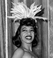 Head shot of Marie Bryant 1944